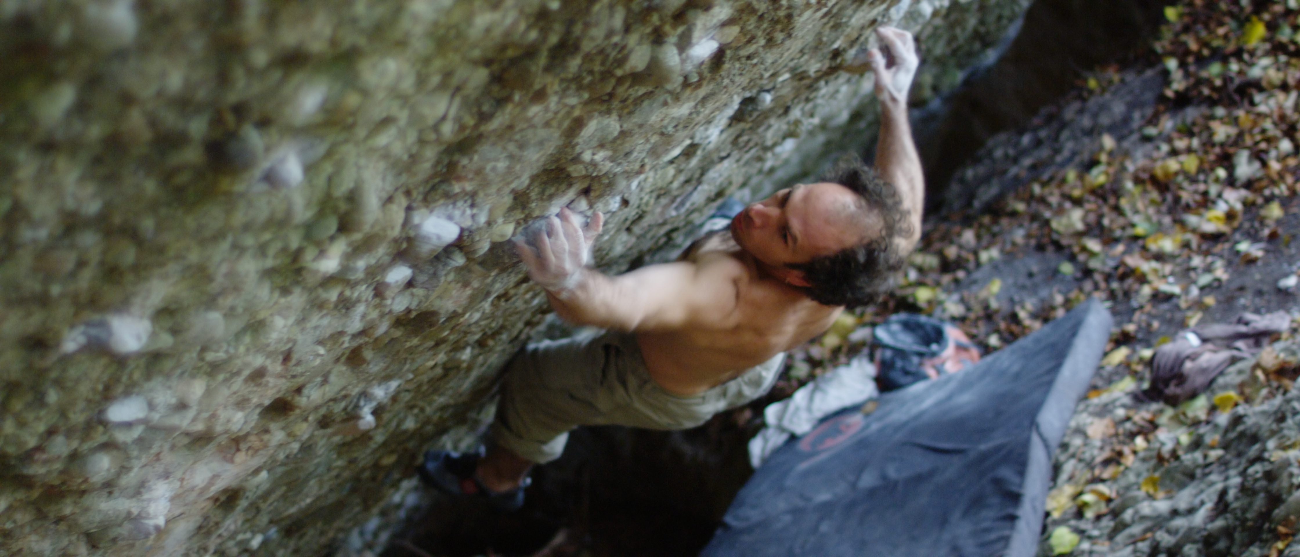 The Swiss climber Fred Nicole, on his project called Le Boa (8C/V15).